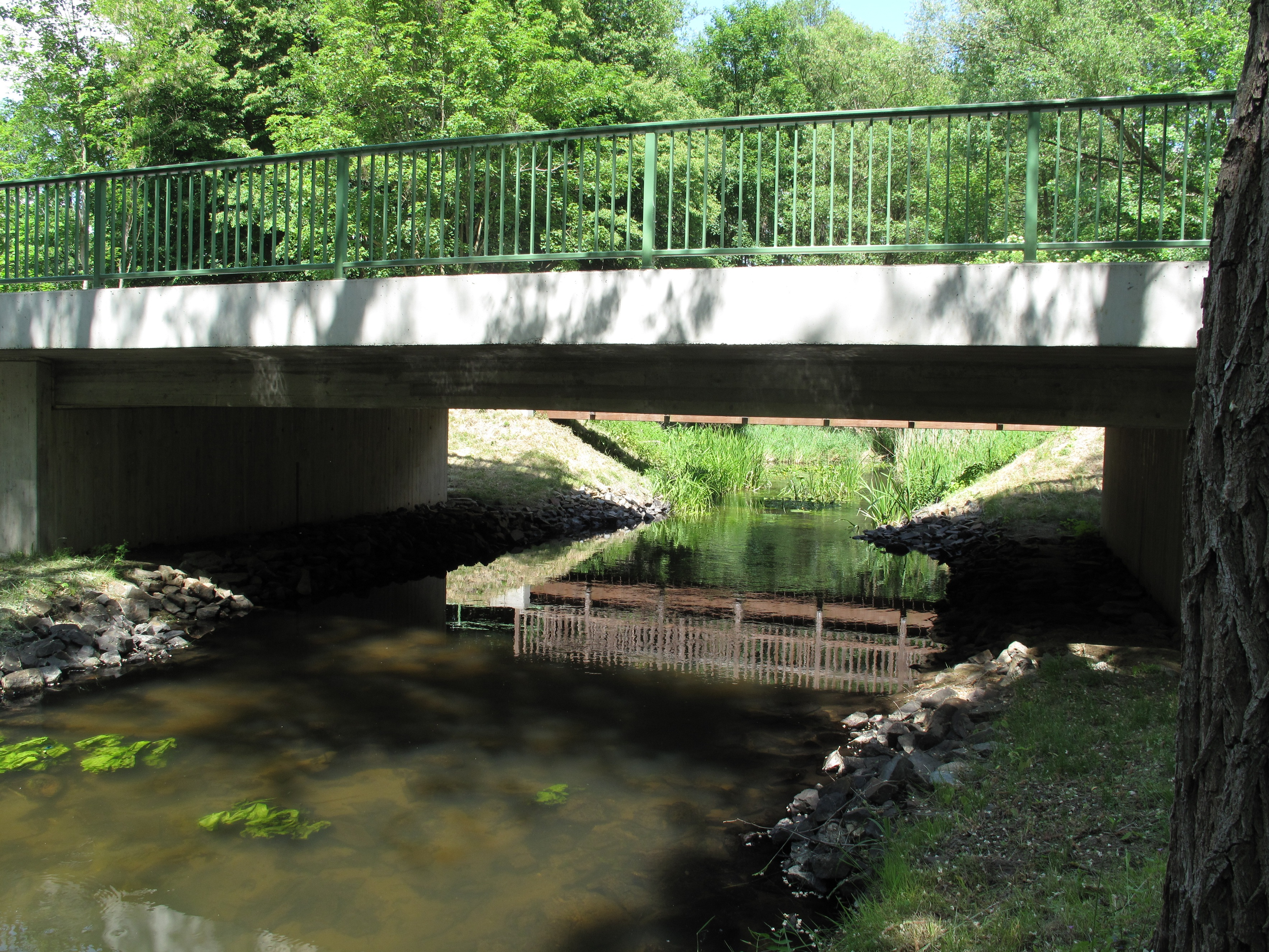 New Löcknitzbridge in Kienbaum. The bridge ober the river Löcknitz was built in 2011. The village Kienbaum is a part of the municipality Grünheide, District Oder-Spree, Brandenburg, Germany. The village had in 2011 approximately 300 inhabitants.